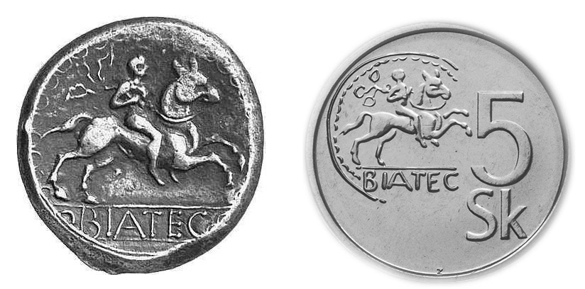 left: Celtic coin of BIATEC found in Slovakia; right: coin of 5 Slovak korunas